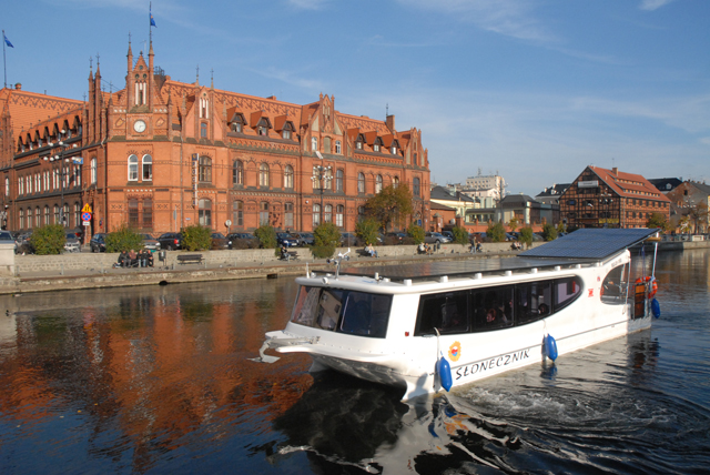 Solar Water Tram - "Sunflower" - Bydgoszcz